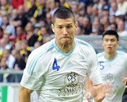 Viktor Dmitrenko, FC Astana.